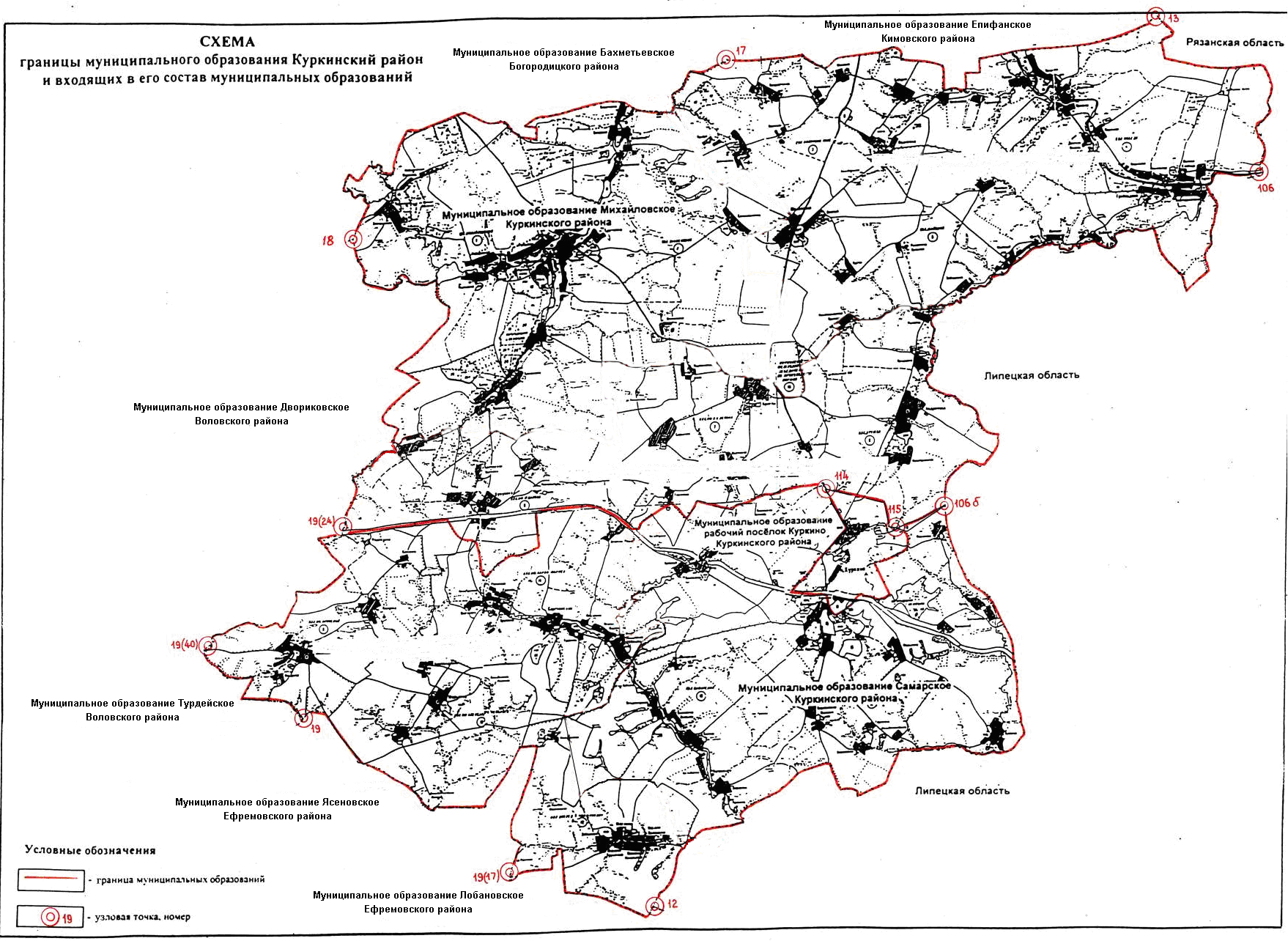 Administrative division of Kurkinsky_District since 2013.